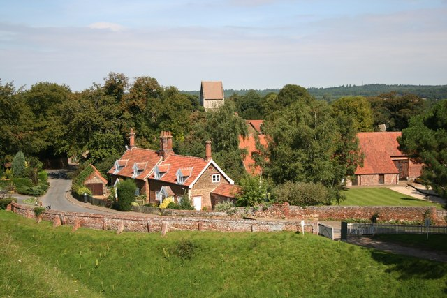 Castle Rising View across the village from the Castle towards Castle Rising church